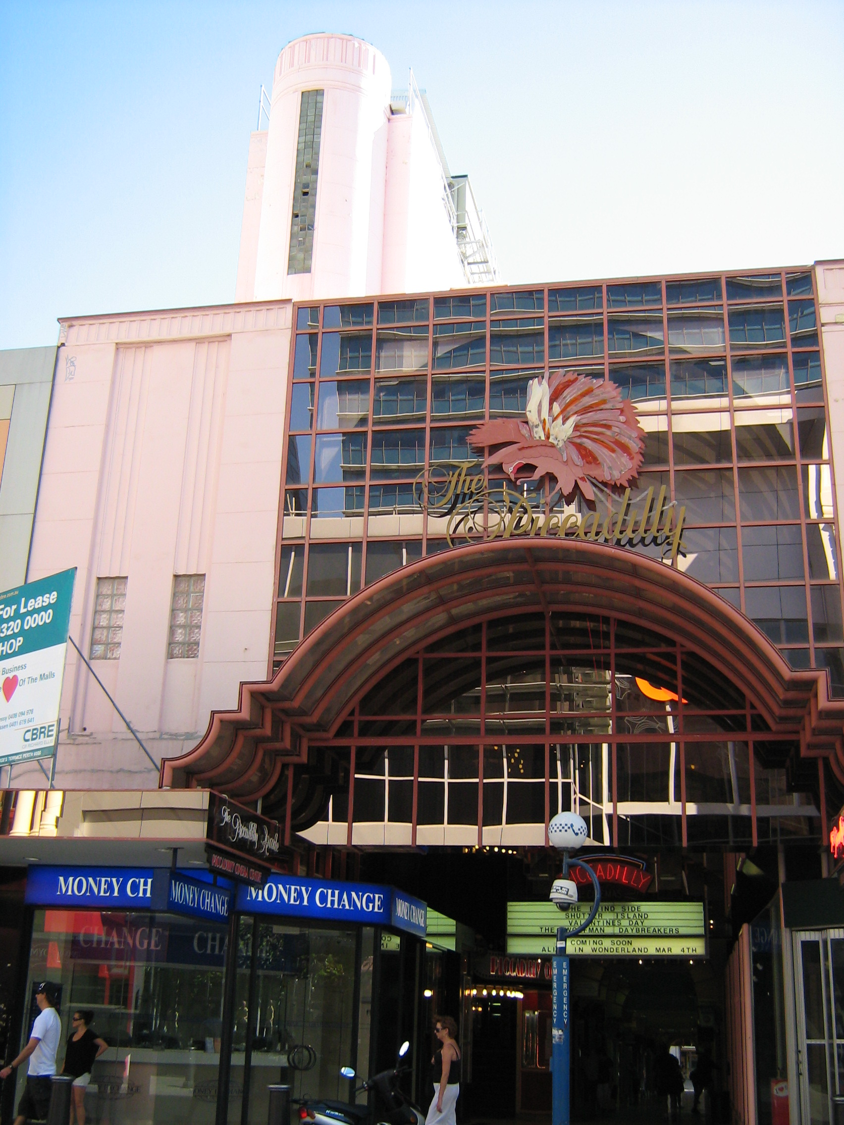 Hay Street Mall entrance to Piccadilly Arcade, Perth